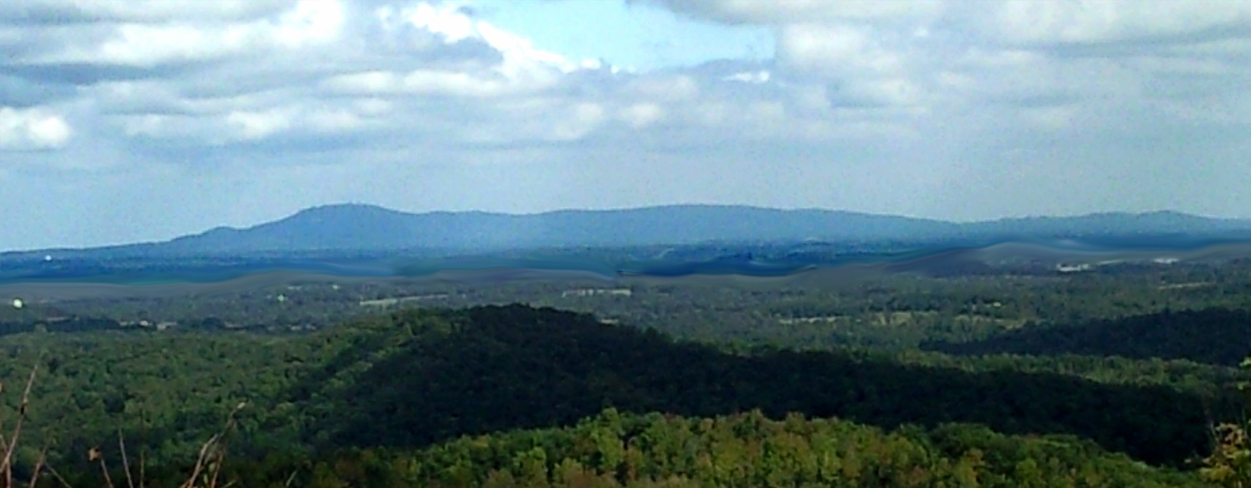 Paris Mountain, located in Greenville County (SC), is the long mountain on the horizon in this photo made from atop Glassy Mountain in neighboring Pickens County (SC), approximately 16 miles away via straight-line measurement.